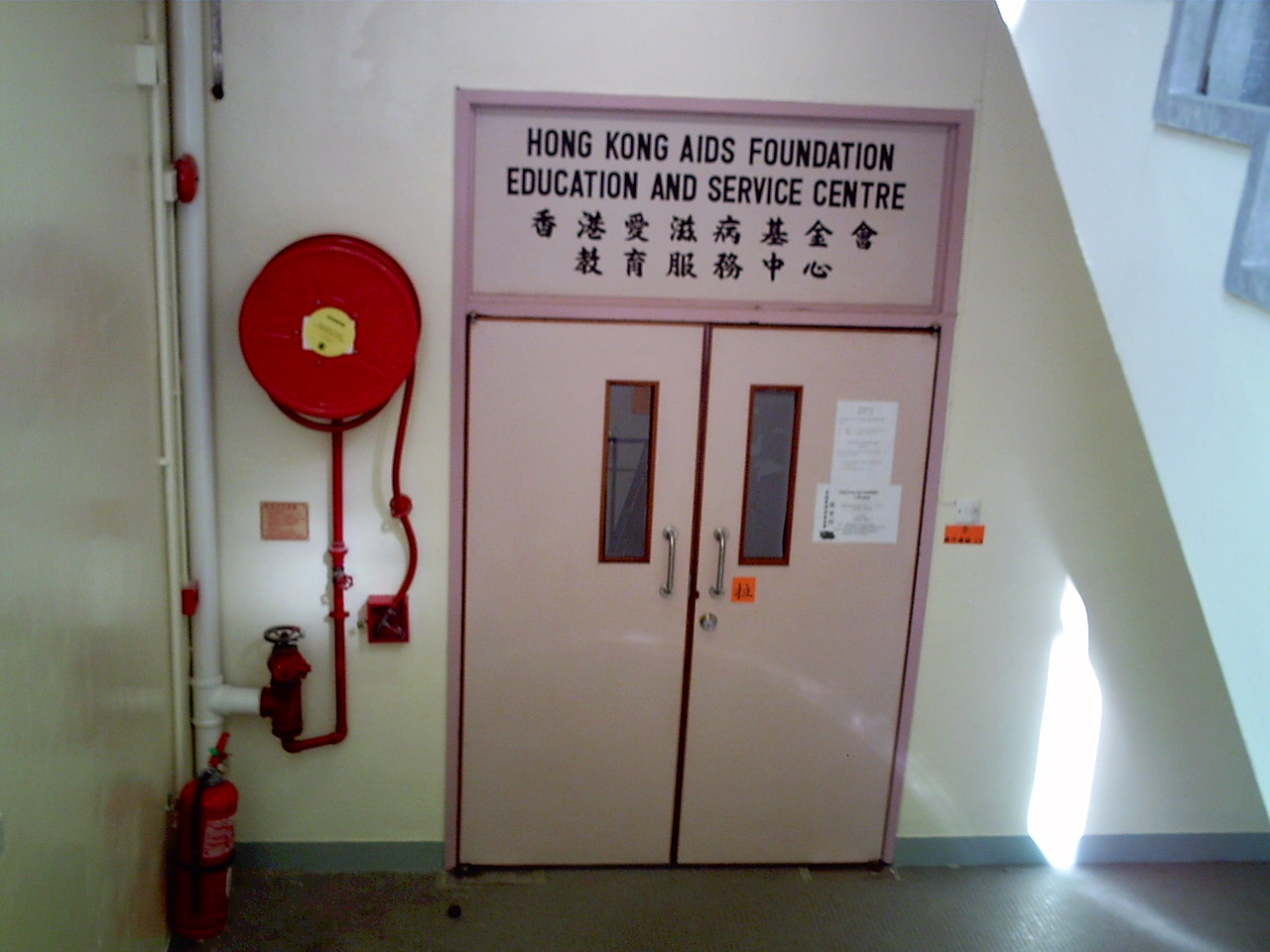 Main Entrance to the Foundation Headquarters